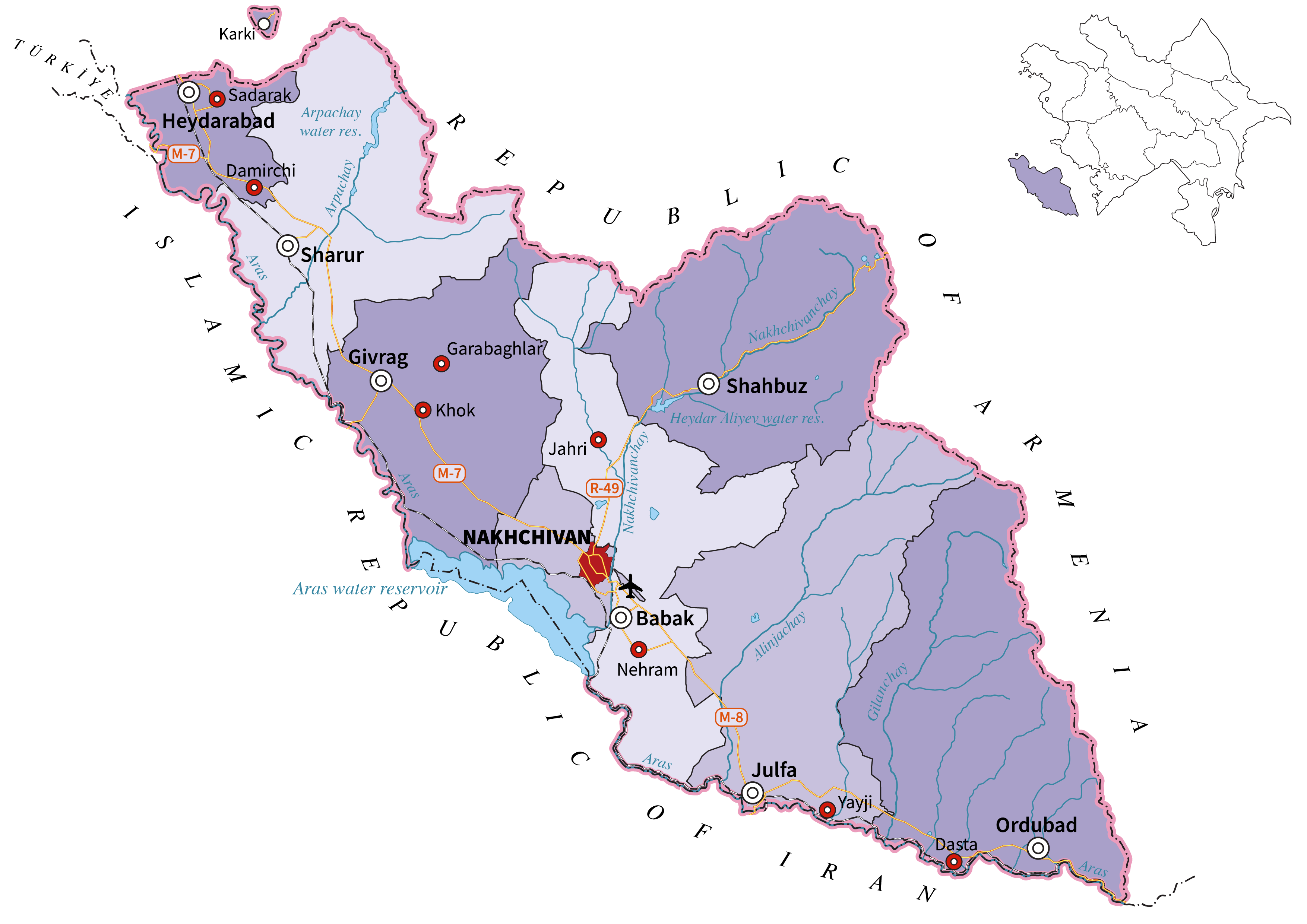 coat of arms of Nakhchivan city